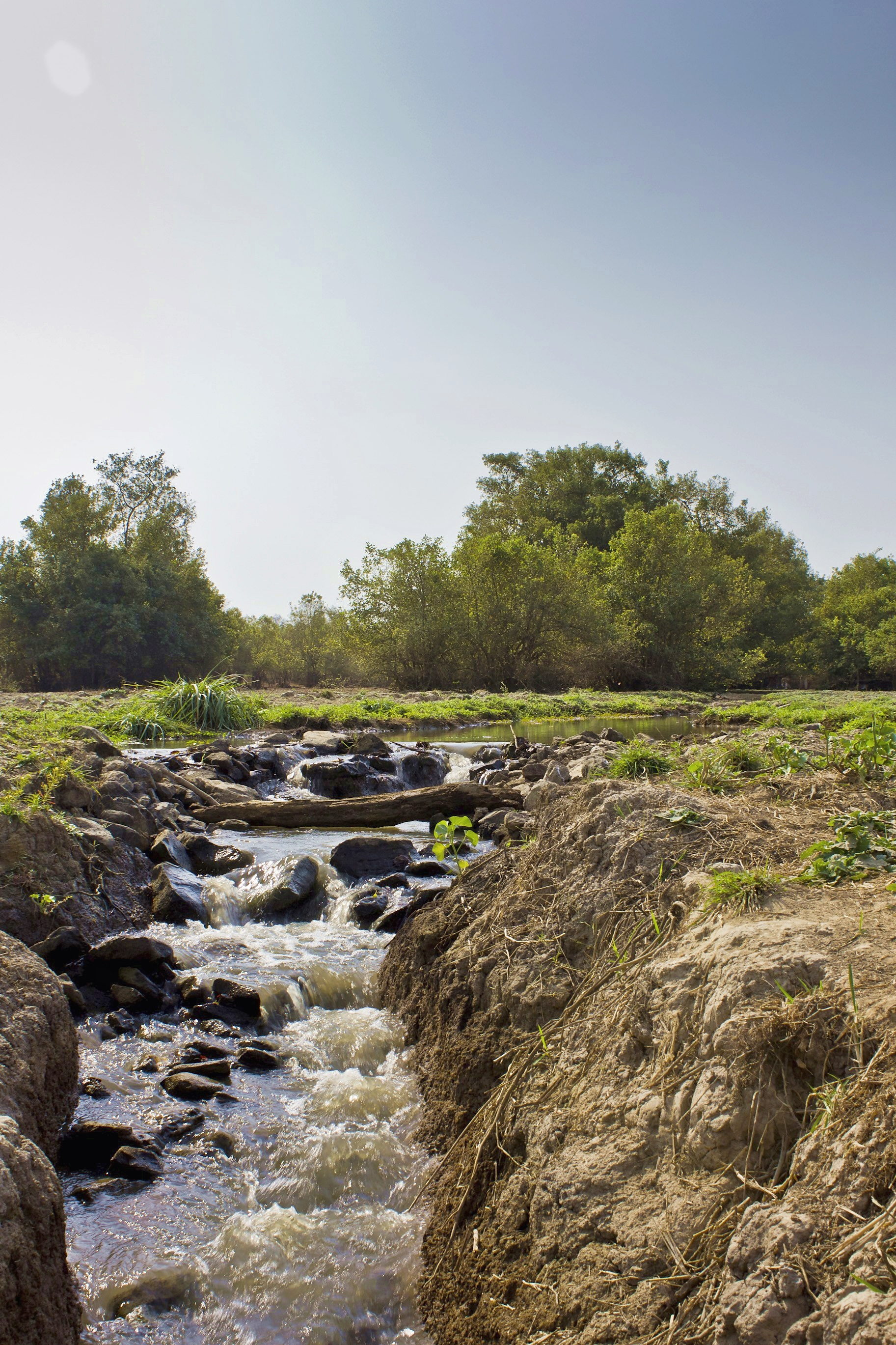 A brook in the Mole National Park (Ghana).